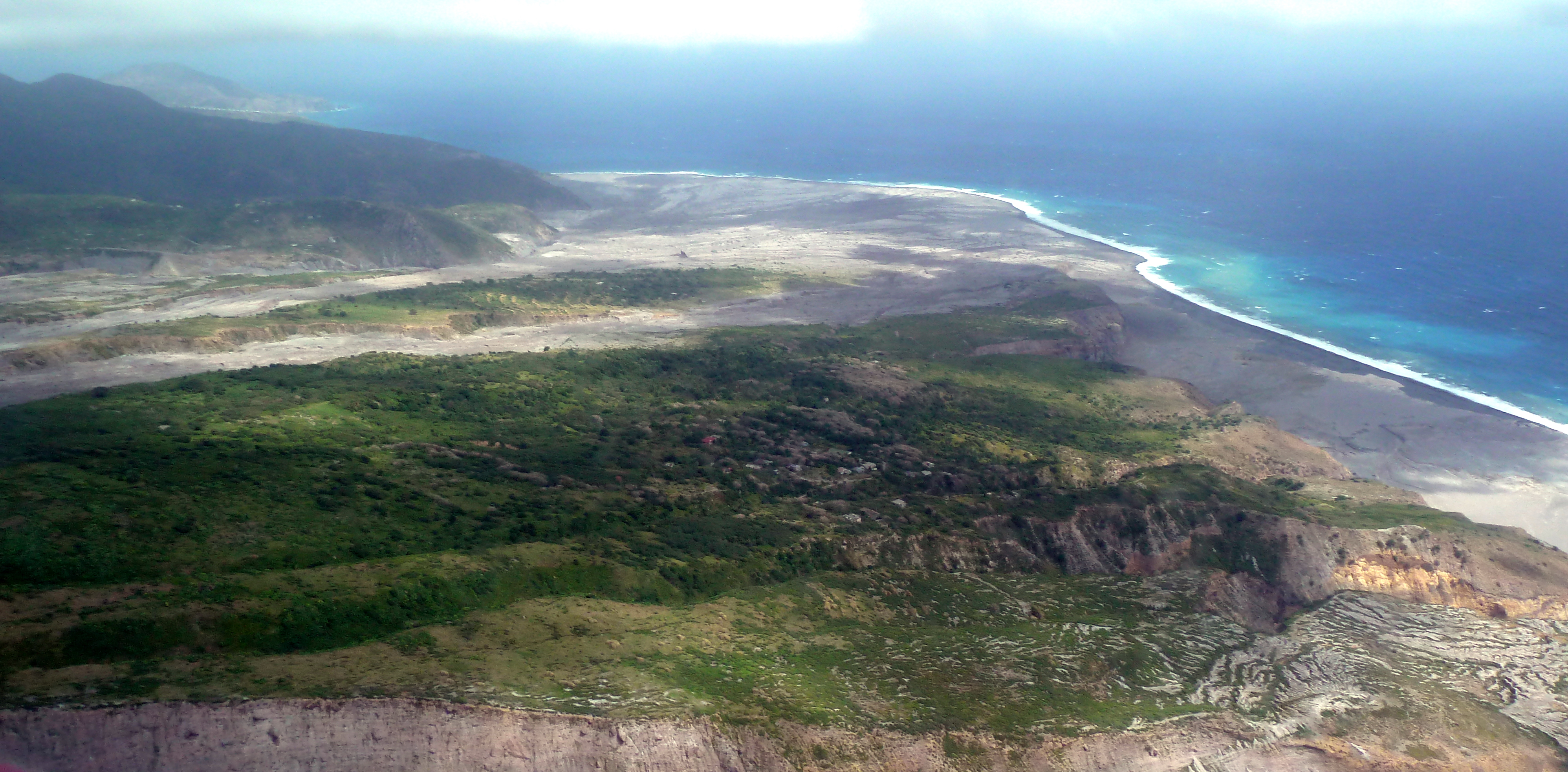 Montserrat, Karibik - 2012-03-04 --- Tutties and Bethel - The east Coast after a Volcanic Eruption